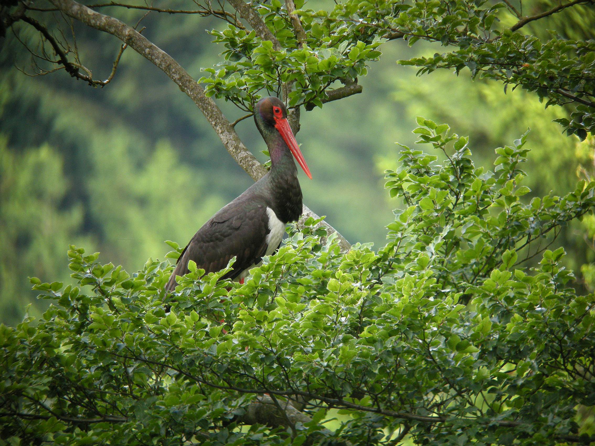 Swarowski 80 HD 30 X, Coolpix P5100 (Adapter DCB)